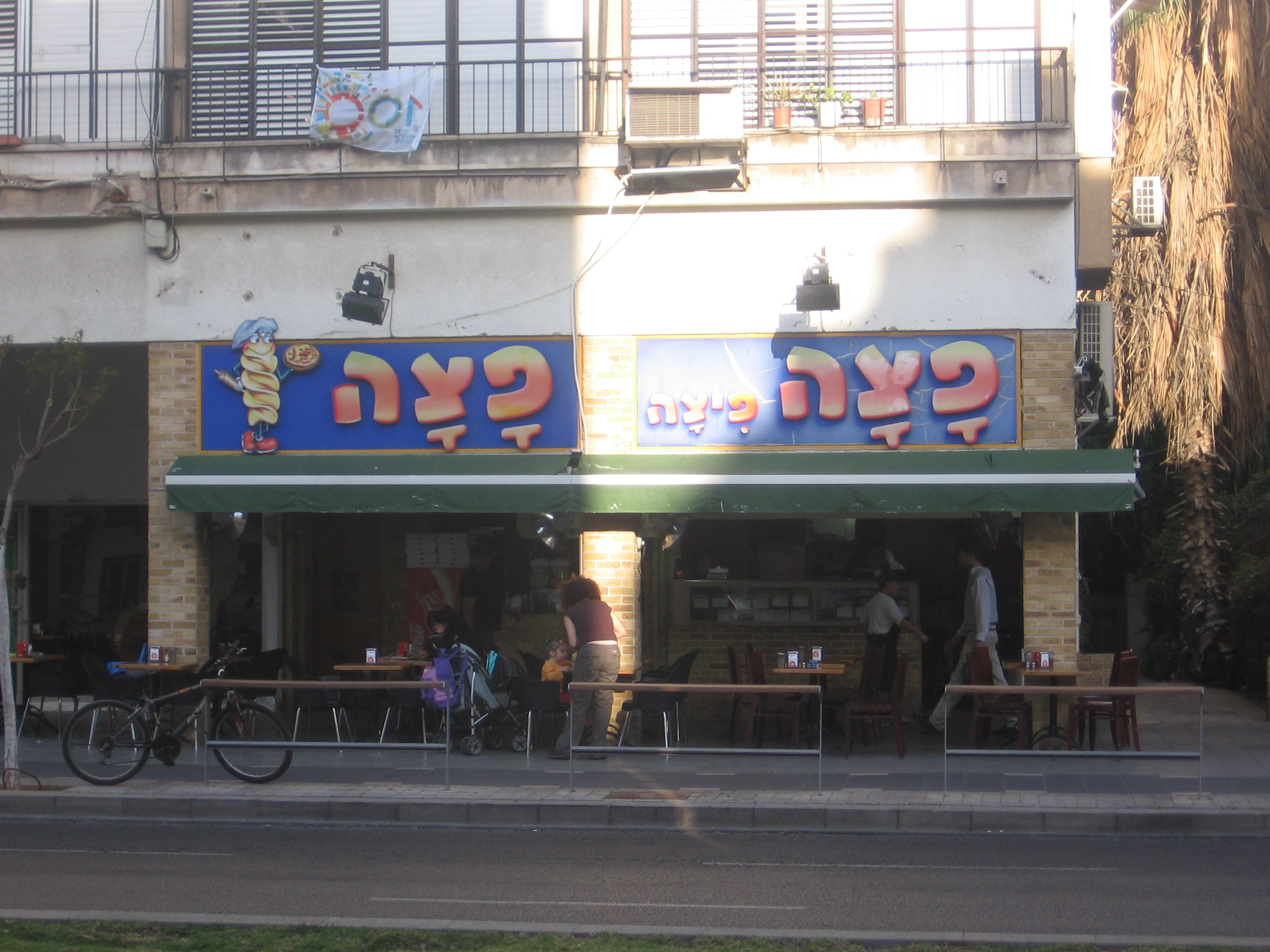 Pizza Pazza in Tel Aviv.